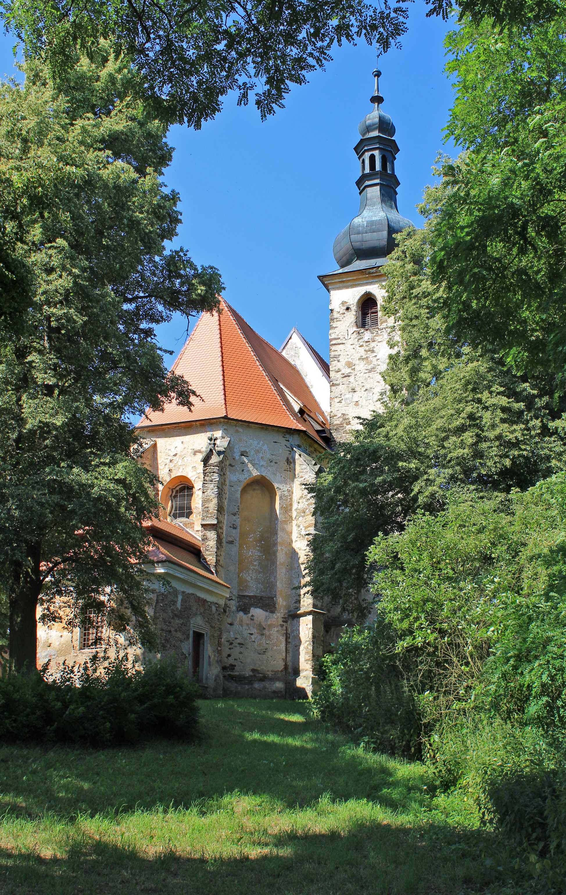 Church of Svatá Anna in Horšovský Týn, Czech Republic.